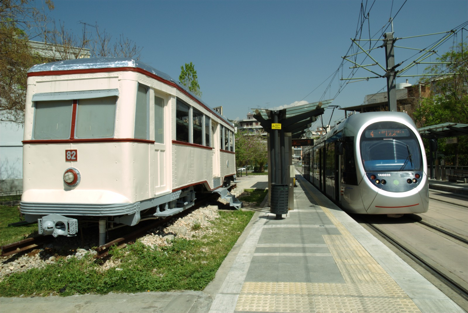 Athens, Greece: A modern Alsaldo-Breda tram at Kasomouli street, next to preserved car no 82 of the defunct Piraeus-Perama suburban light railway (1936-1977).